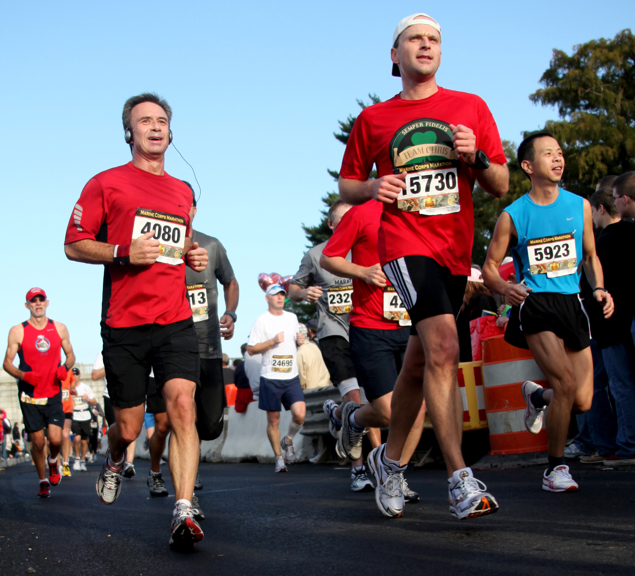 Runners fly past the 10 mile marker during 35th Marine Corps Marathon Oct. 31, 2010. More than 30,000 runners particapated in the 26.2-mile run through the nation's Capital.